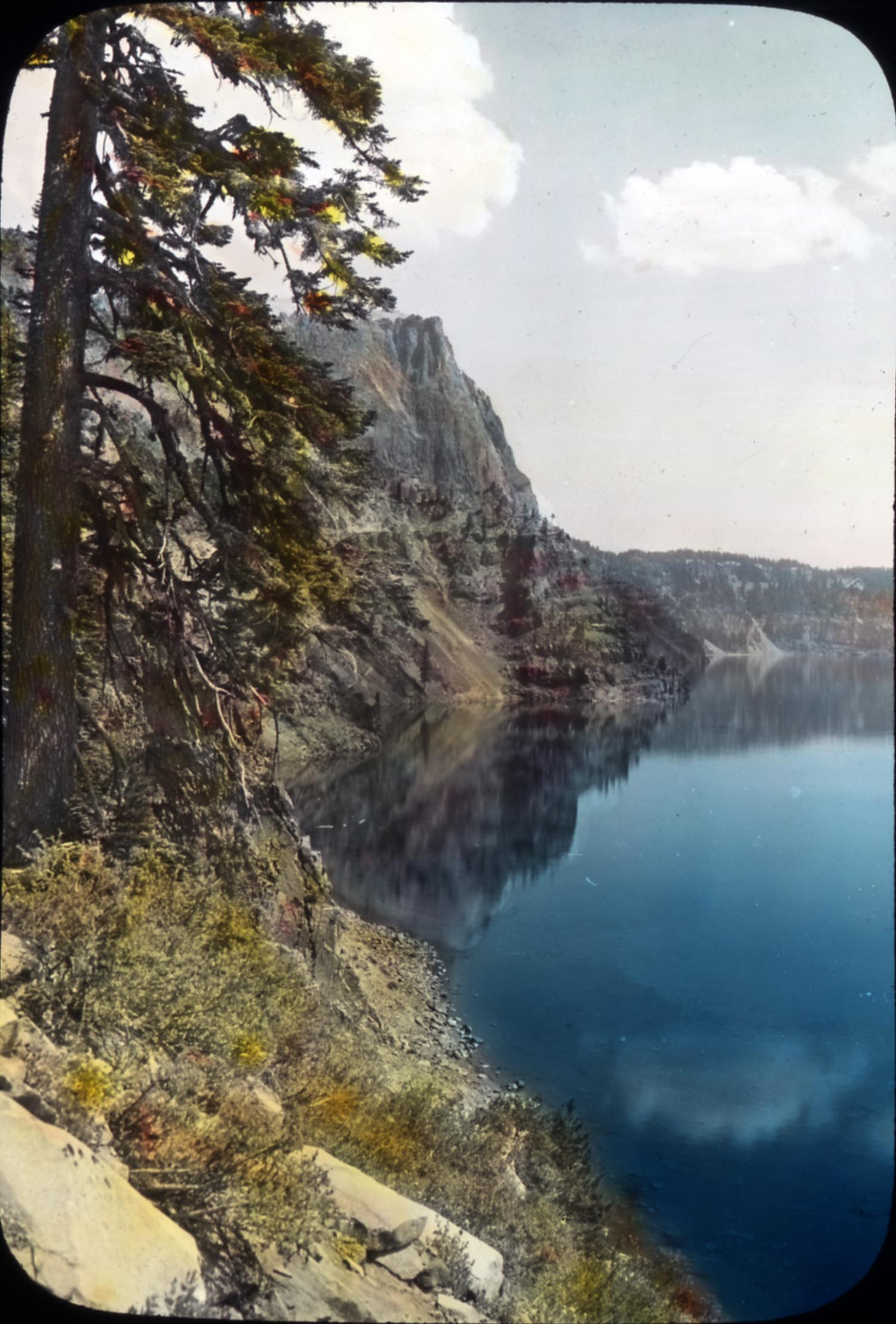 Image Description: "According to the legend of the Klamath and Modoc Indians the mystic land of Gaywas was the home of the great god Llao. His throne in the infinite depths of the blue green waters was surrounded by his warriors, giant crawfish able to lift great claws out of the water and seize too venturesome enemies on the cliff tops. War broke out with Skell, the god of the neighboring Klamath Marshes. Skell was captured and his heart used for a ball by Llao’s monsters. But an eagle, one of Skell’s servant, captured it in its flight, and a deer, another of Skell’s servants, escaped with it; and Skell’s body grew again around his living heart. Once more he was powerful, and once more he waged war against the God of the Lake. Then Llao was captured; but he was not so fortunate. Upon the highest cliff his body was torn into fragments and cast into the lake, eaten by his own monsters under the belief that it was Skell’s body. But when Llao’s head was thrown in, the monsters recognized it and would not eat it. Llao’s head will lies in the lake, and white men call it Wizard Island. And the cliff where Llao was torn to pieces if named Llao Rock." Original Collection: Visual Instruction Department Lantern Slides Item Number: P217:set 065 019 You can find this image by searching for the item number by clicking here. Want more? You can find more digital resources online. We're happy for you to share this digital image within the spirit of The Commons; however, certain restrictions on high quality reproductions of the original physical version may apply. To read more about what “no known restrictions” means, please visit the Special Collections & Archives website, or contact staff at the OSU Special Collections & Archives Research Center for details.